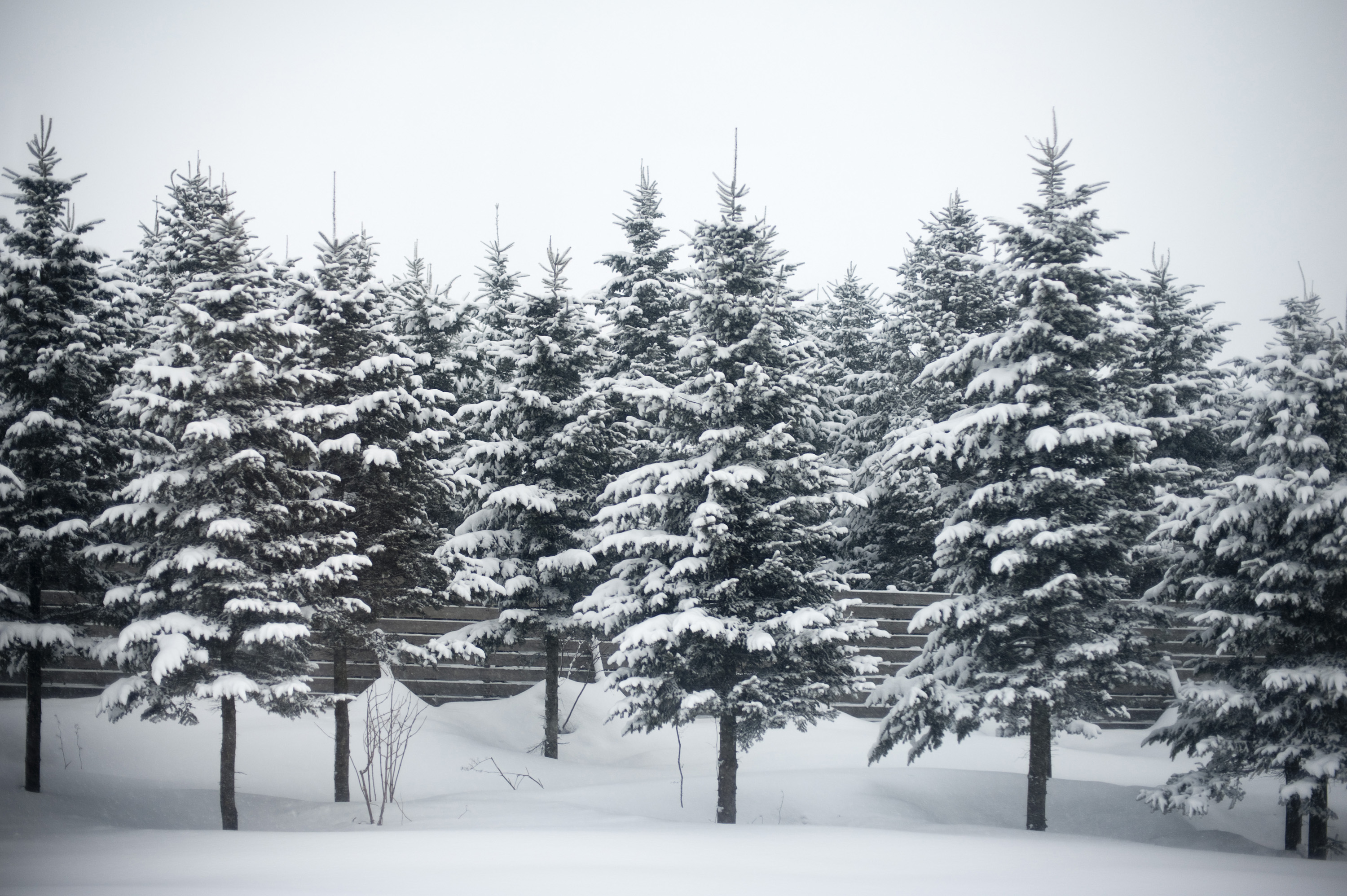 Fir Abies sp. trees with snow.